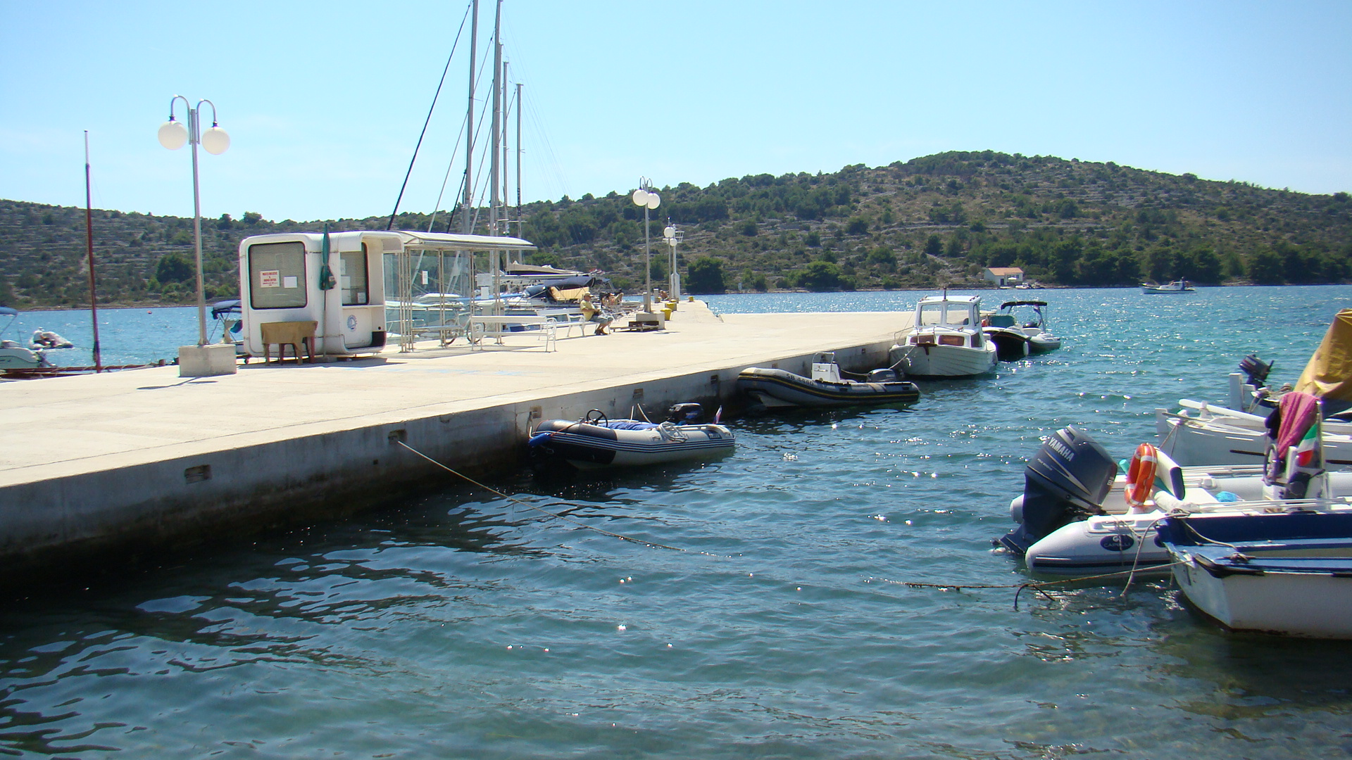 Port in the Kaprije.